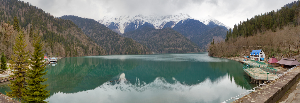 The panoramic view of Ritsa lake